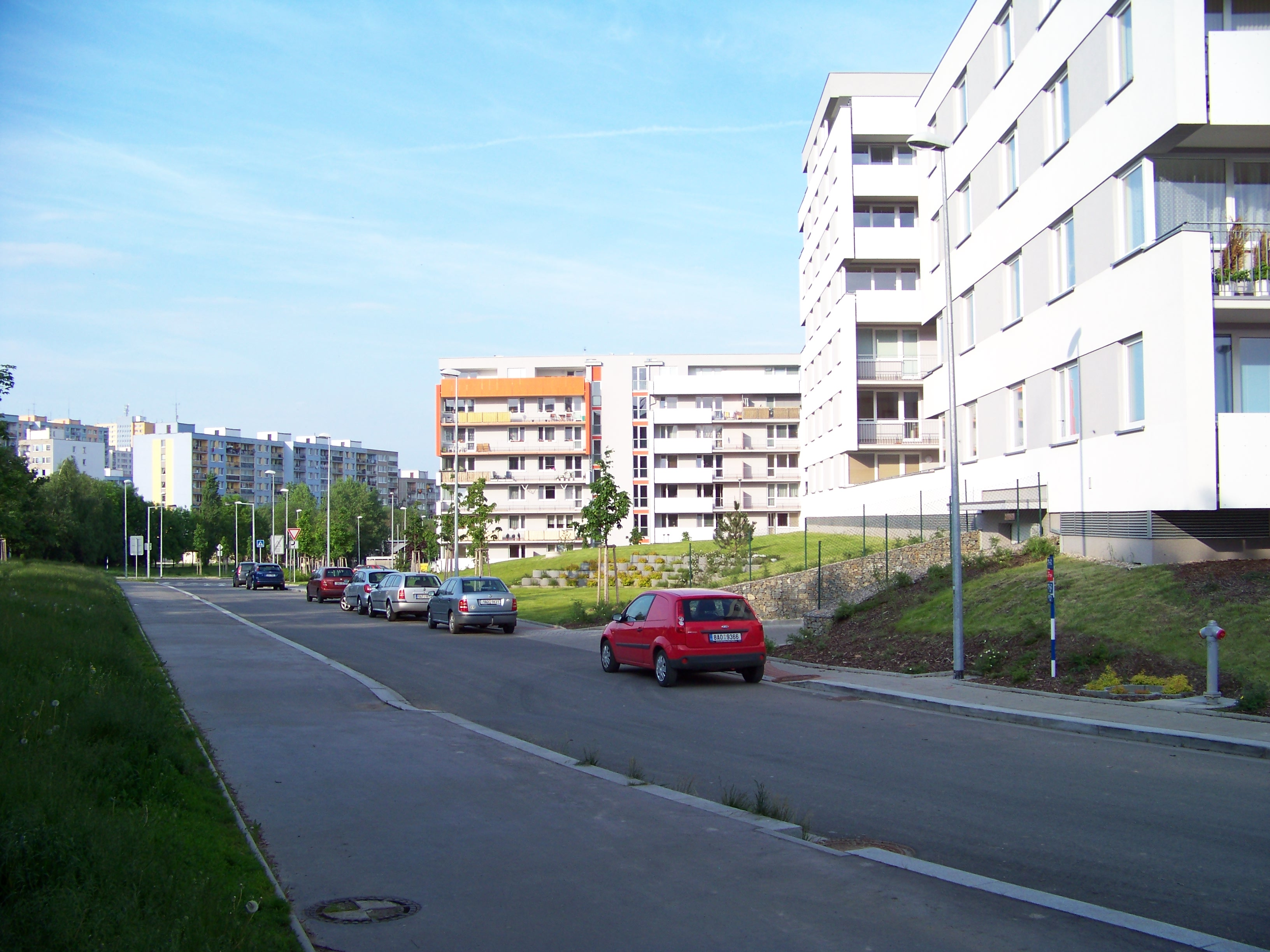 Háje, Prague, the Czech Republic. Jurkovičova street.